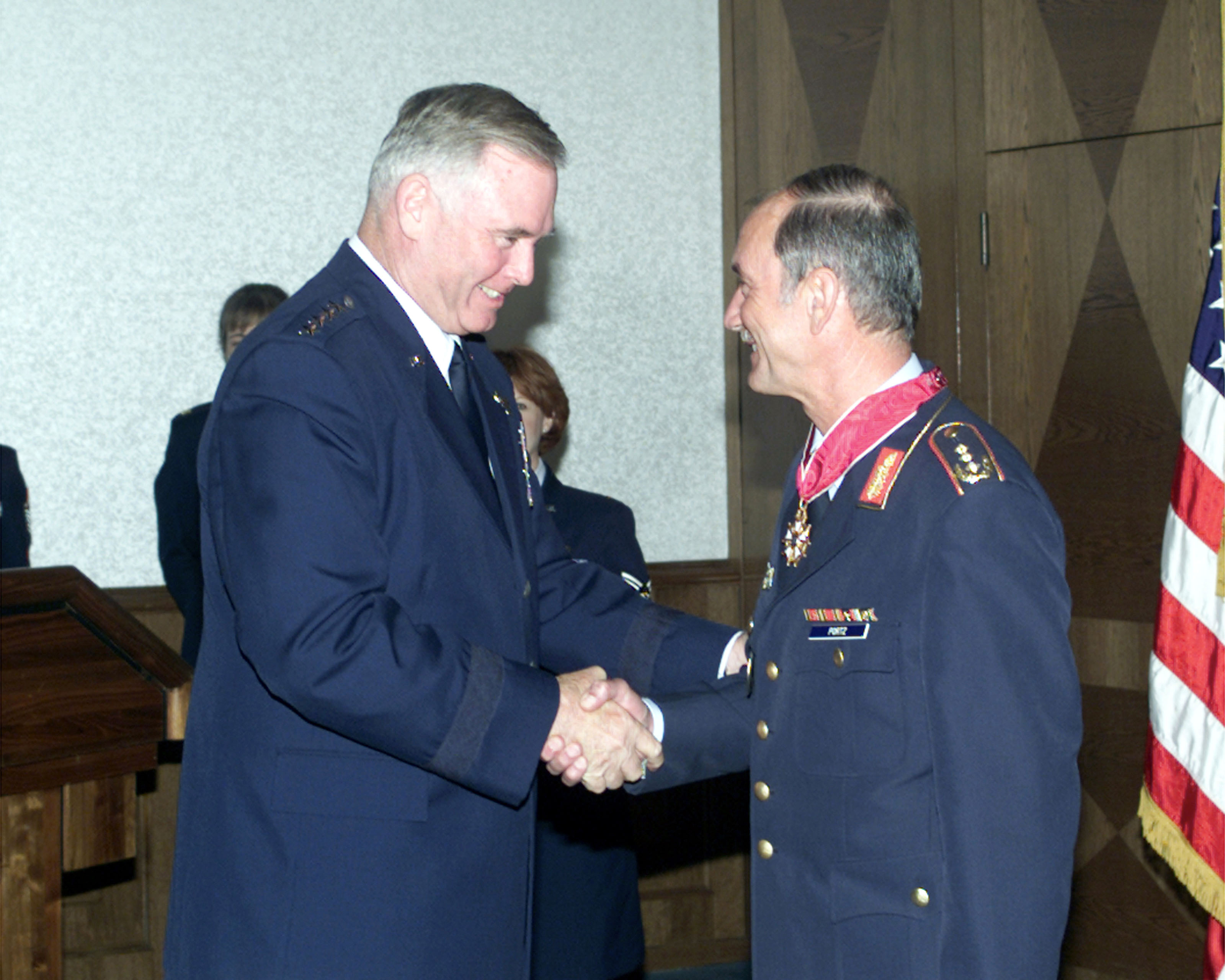 Scope and content: The original finding aid described this photograph as: Ramstein Air Force Base, Country: Deutschland / Germany (DEU), Scene Camera Operator: SRA Kristen Conway, Release Status: Released to Public